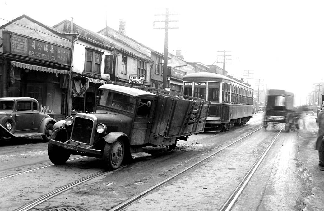 "Traffic tie-up" - Truck and streetcar on Elizabeth Street, south of Dundas Street, in Toronto, Ontario, Canada.